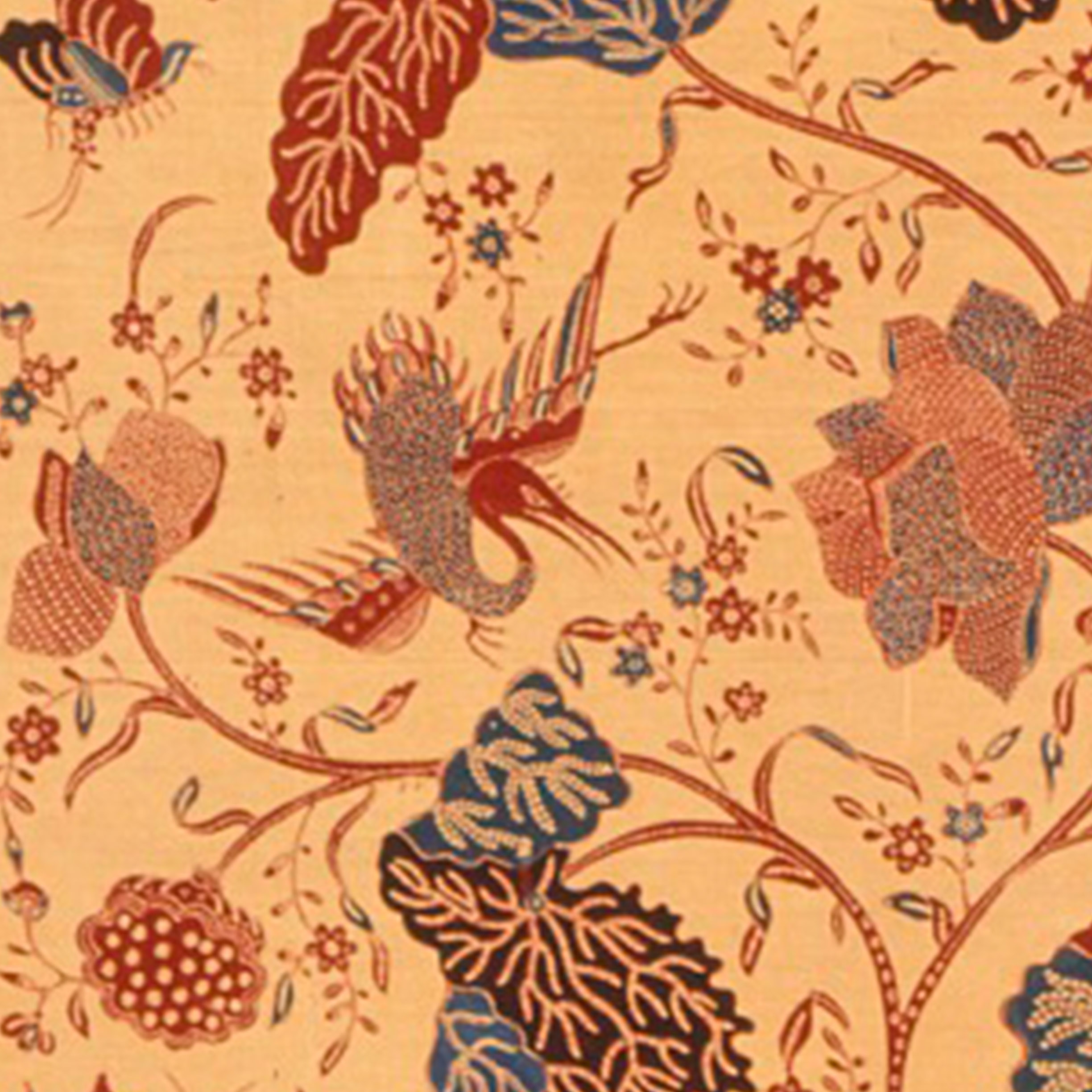 egret